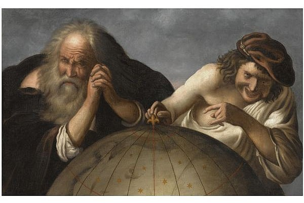 Democritus and Heraclitus